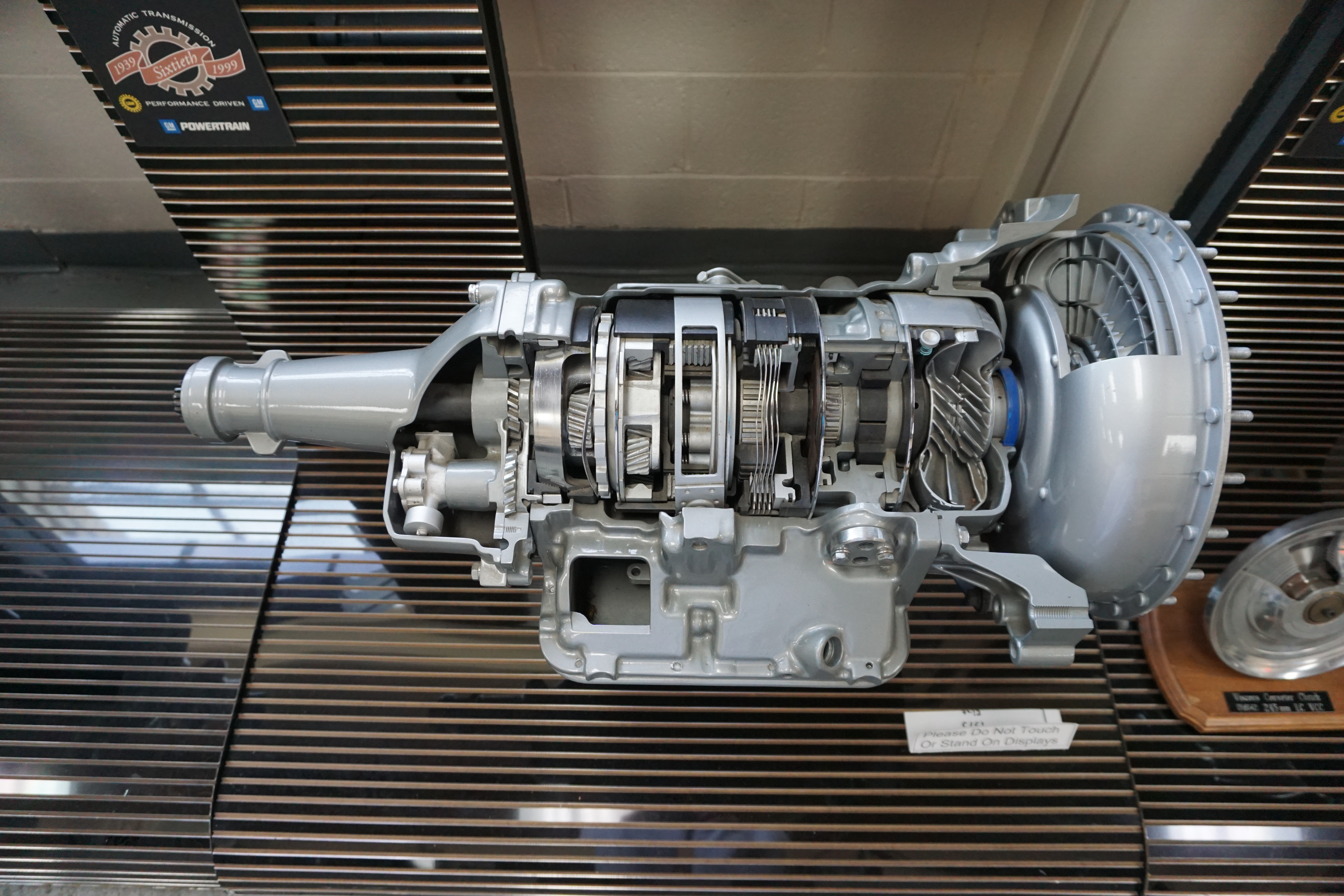 A 1956-64 Hydra-Matic 315 transmission at the Ypsilanti Automotive Heritage Museum in Ypsilanti, Michigan (United States).